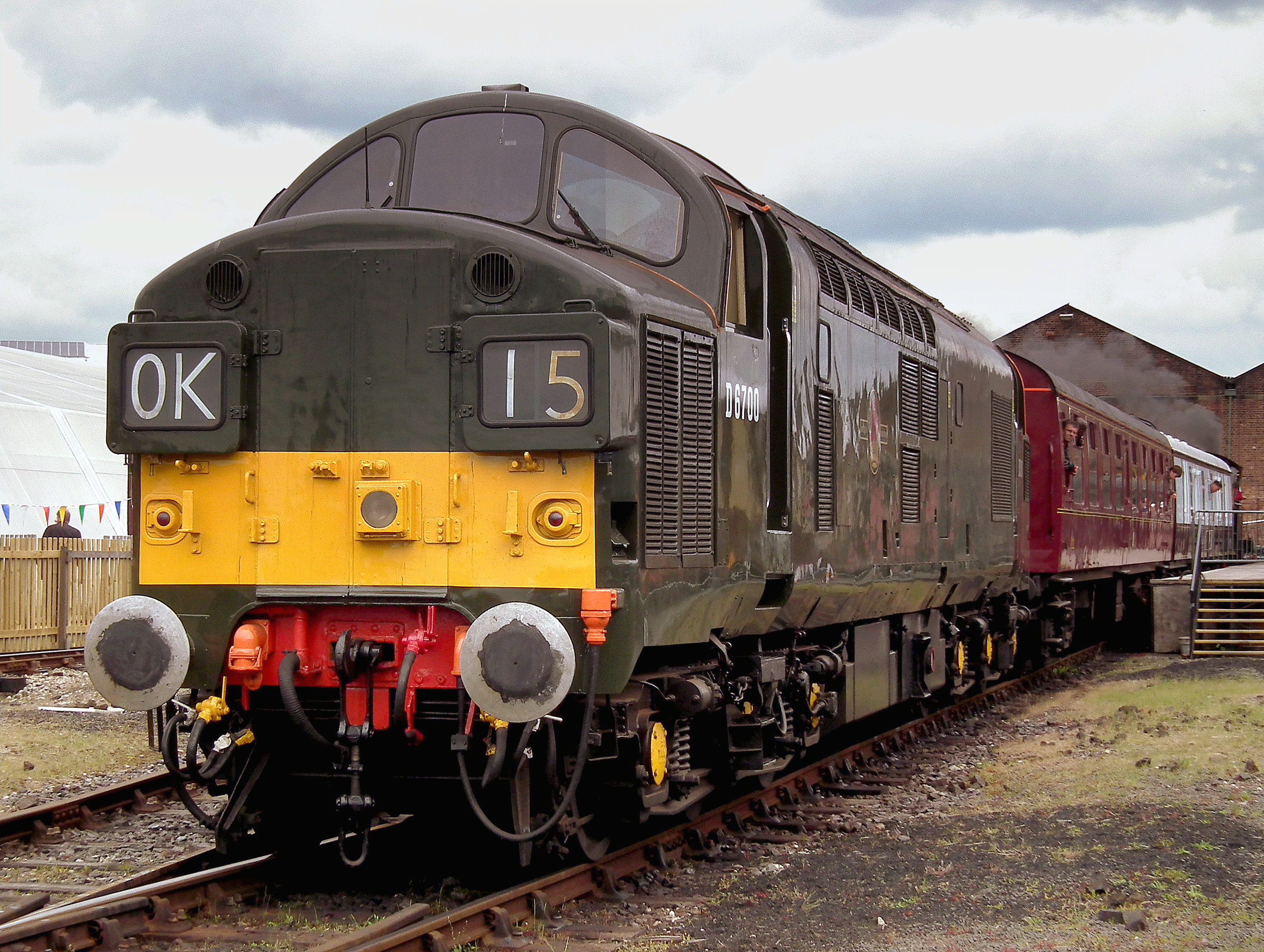 D6700 CLASS 37 YORK RAILFEST JUNE 2012